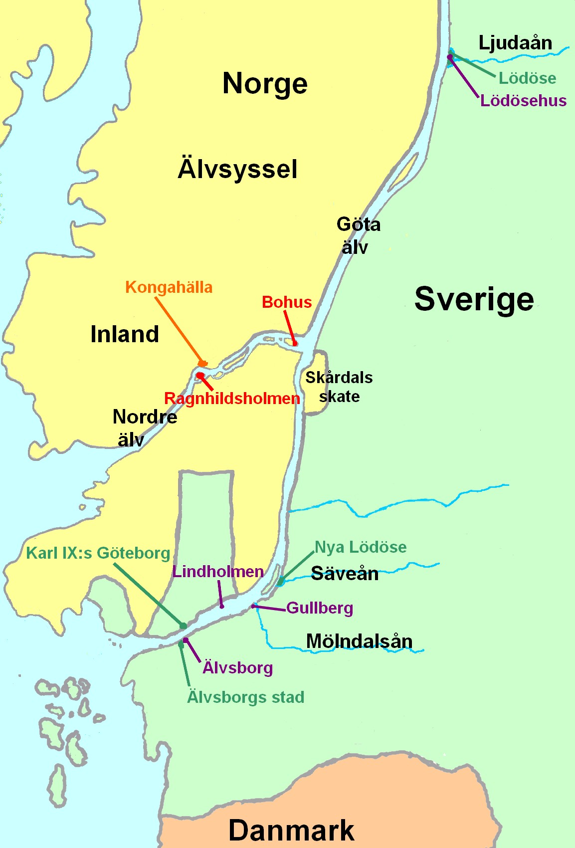 Map showing borders, medieval castles and cities in the Göta älv-area up to 1620. Red: Norwegian castles, Orange:Norwegian towns, Purple: Swedish castles, Green: Swedish towns.